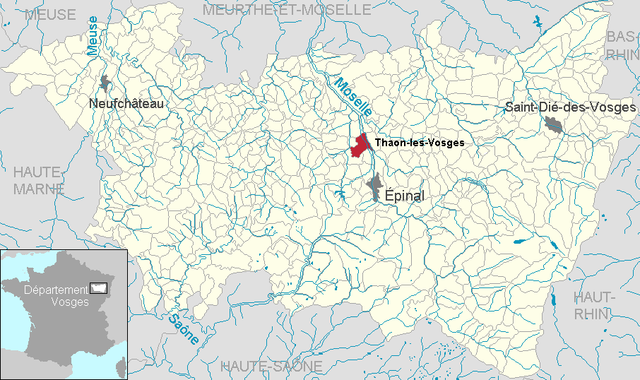 Thaon-les-Vosges in the department of Vosges, Lorraine, France